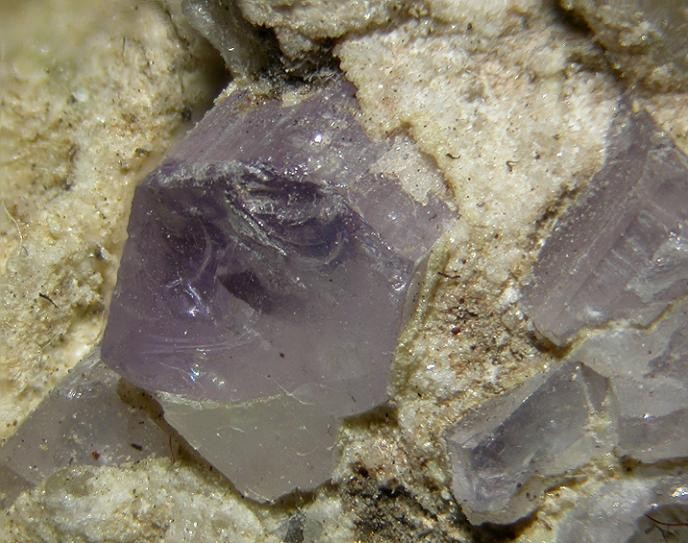 Fluorapatite (Apatite-(CaF)) Locality: Greifenstein Rocks, Ehrenfriedersdorf, Erzgebirge, Saxony, Germany Field of view 12 mm. Depth of field is achieved with CombineZM. Specimen and photo Leon Hupperichs.